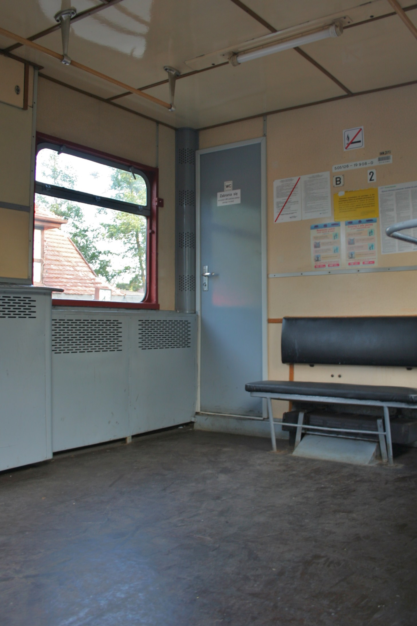 Bhp car detail.